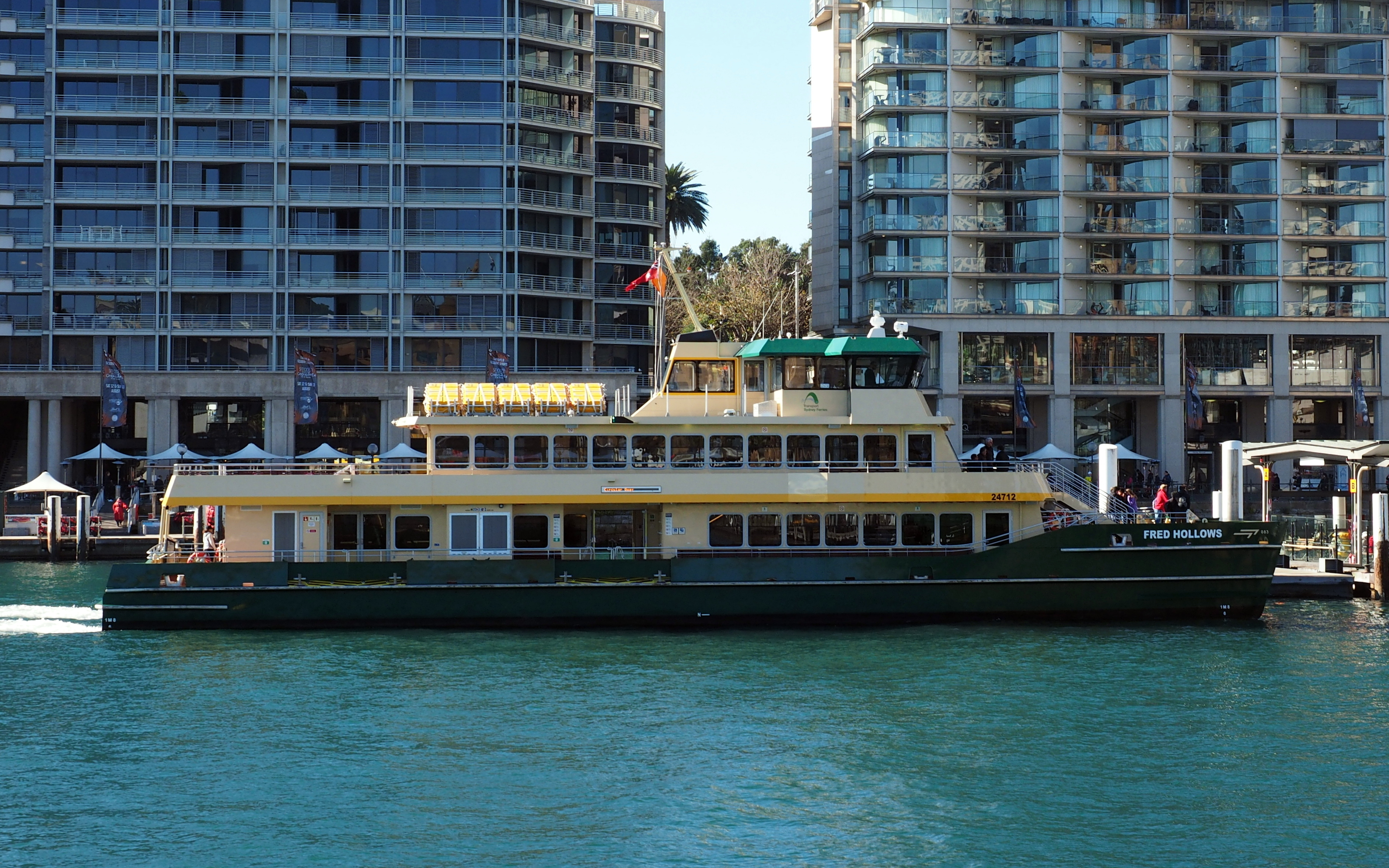 The ferry Fred Hollows approaching Circular Quay in July 2017